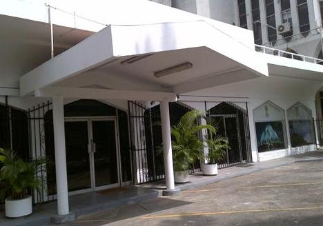 Indian Embassy in Panama City